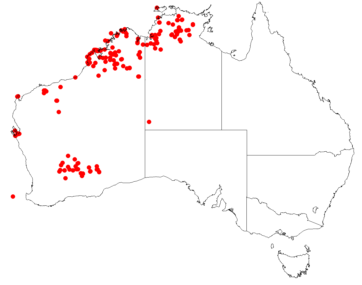 Australian distribution of Amyema benthamii based on download from Australasian Virtual Herbarium May 9, 2018